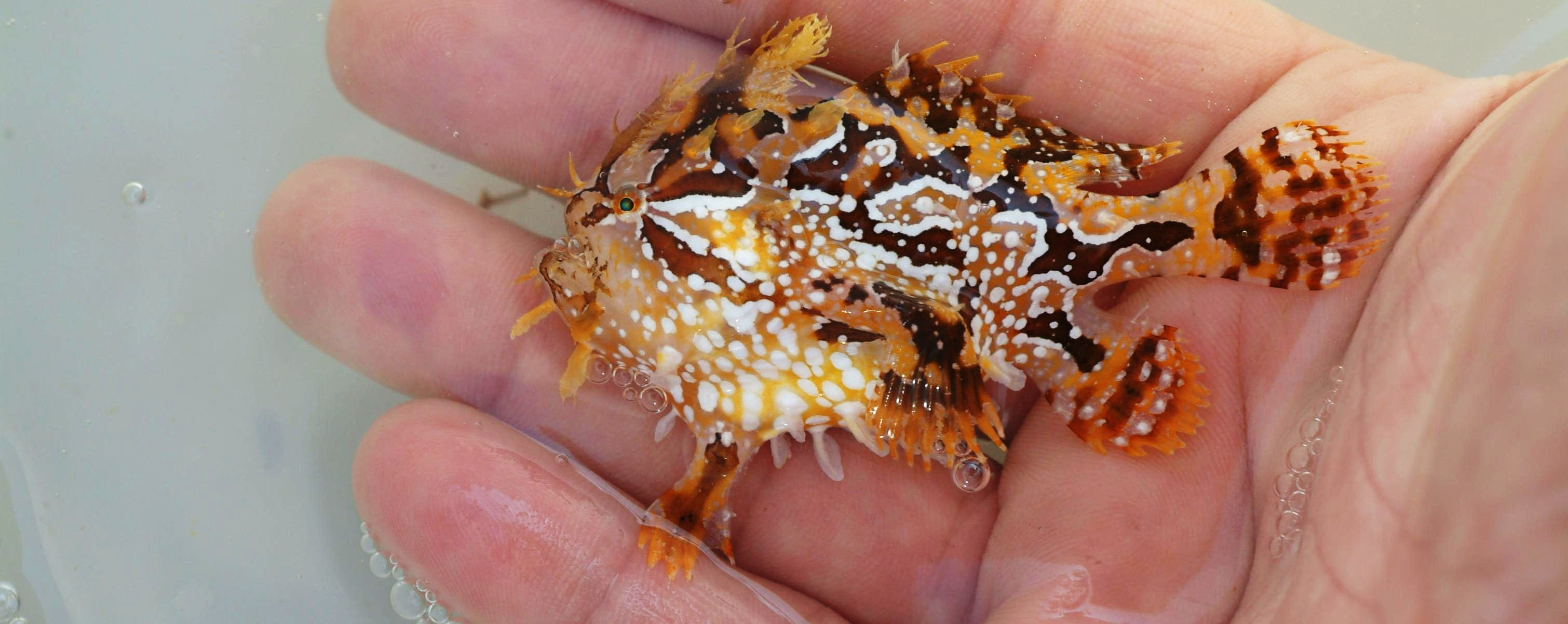 Sargassumfish ( Histrio histrio ). Gulf of Mexico.